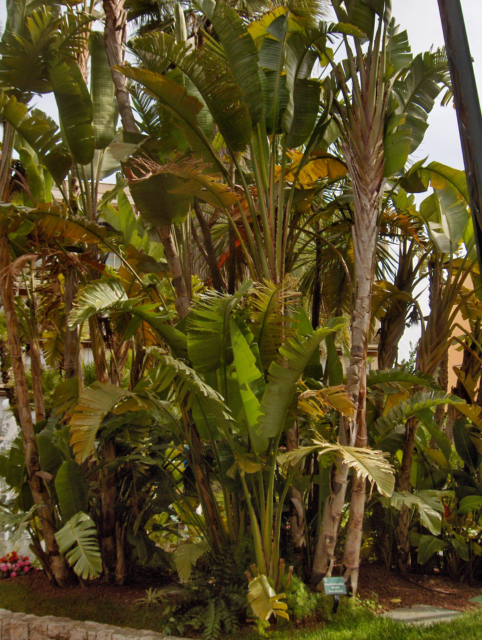 Strelitzia alba,botanical garden, Sanremo, Italy